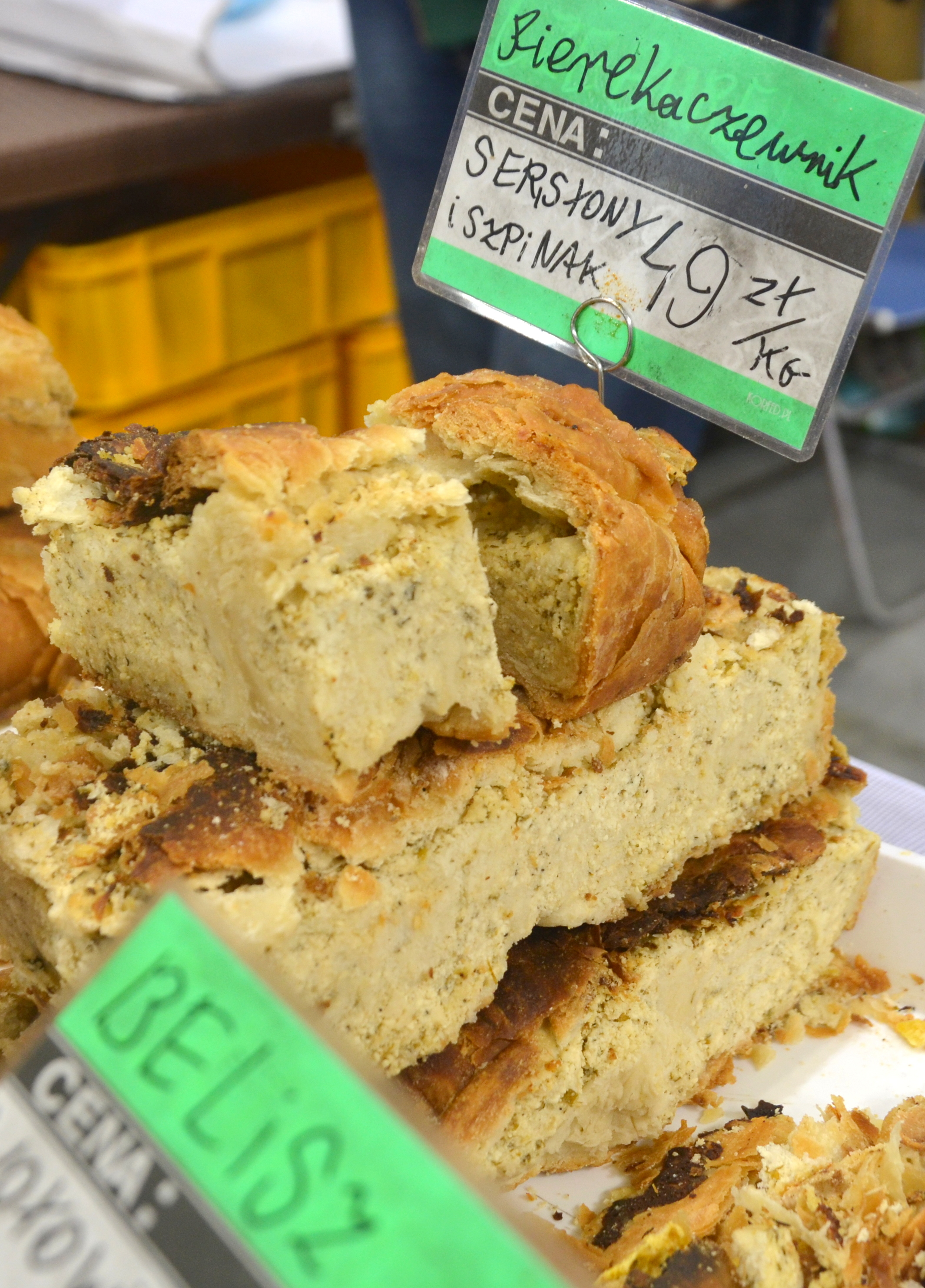 Lipka-Tataren Küche in Polen, 4th ECOstyl Fair